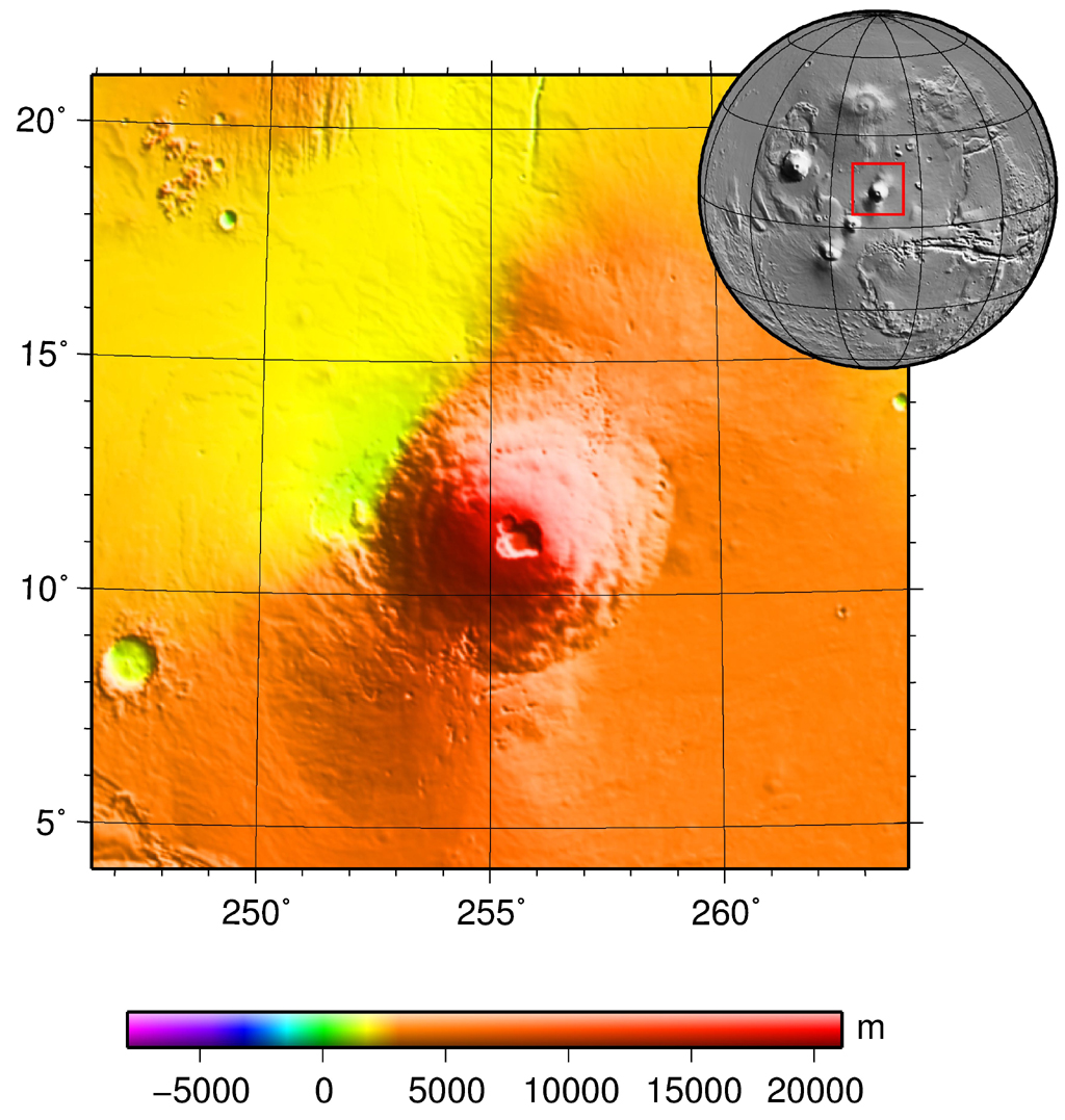 Acraeus Mons (Mars) topography